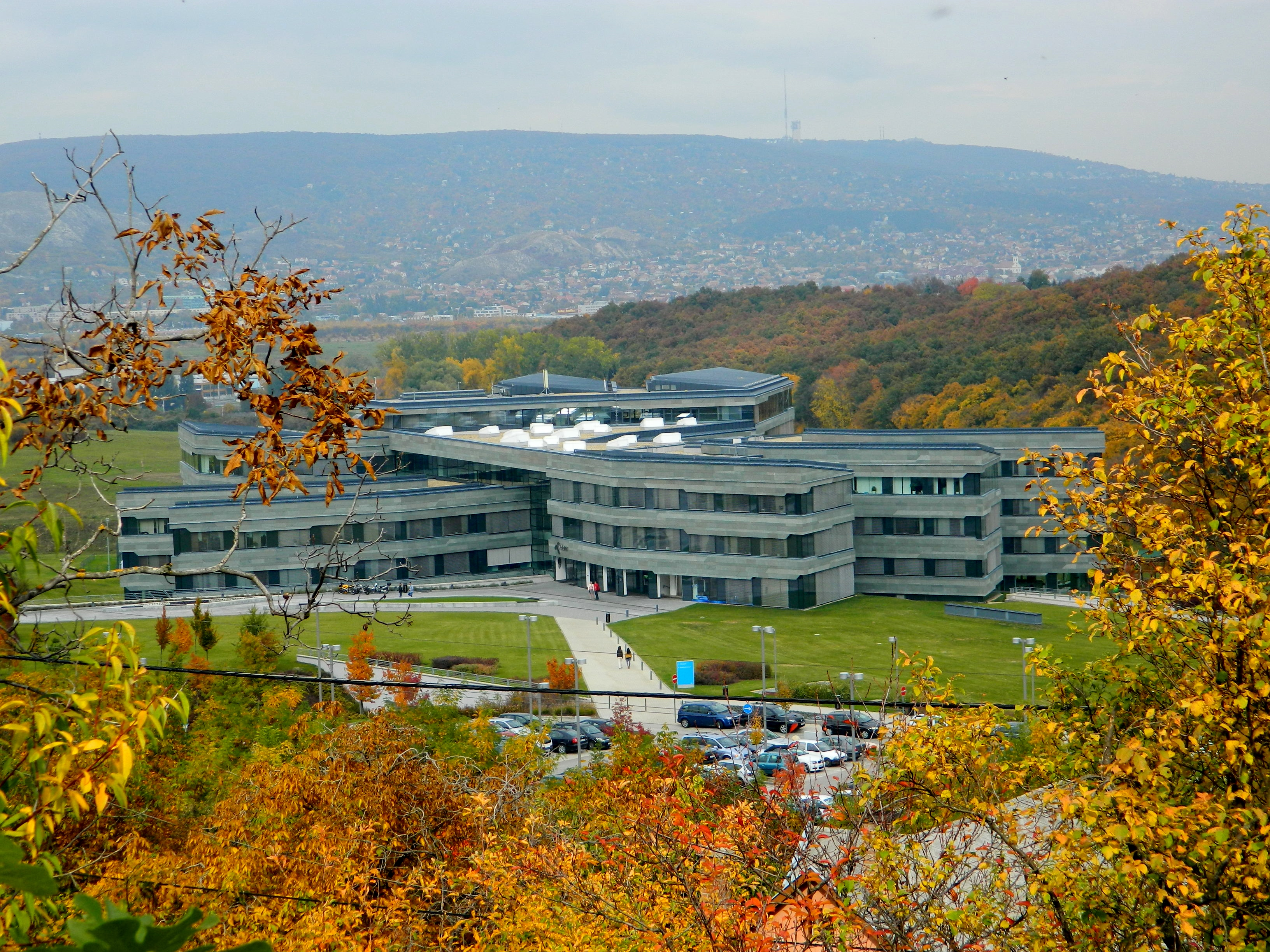 Telenor Hungarian office building, Törökbálint. Architect: Gábor Zoboki.